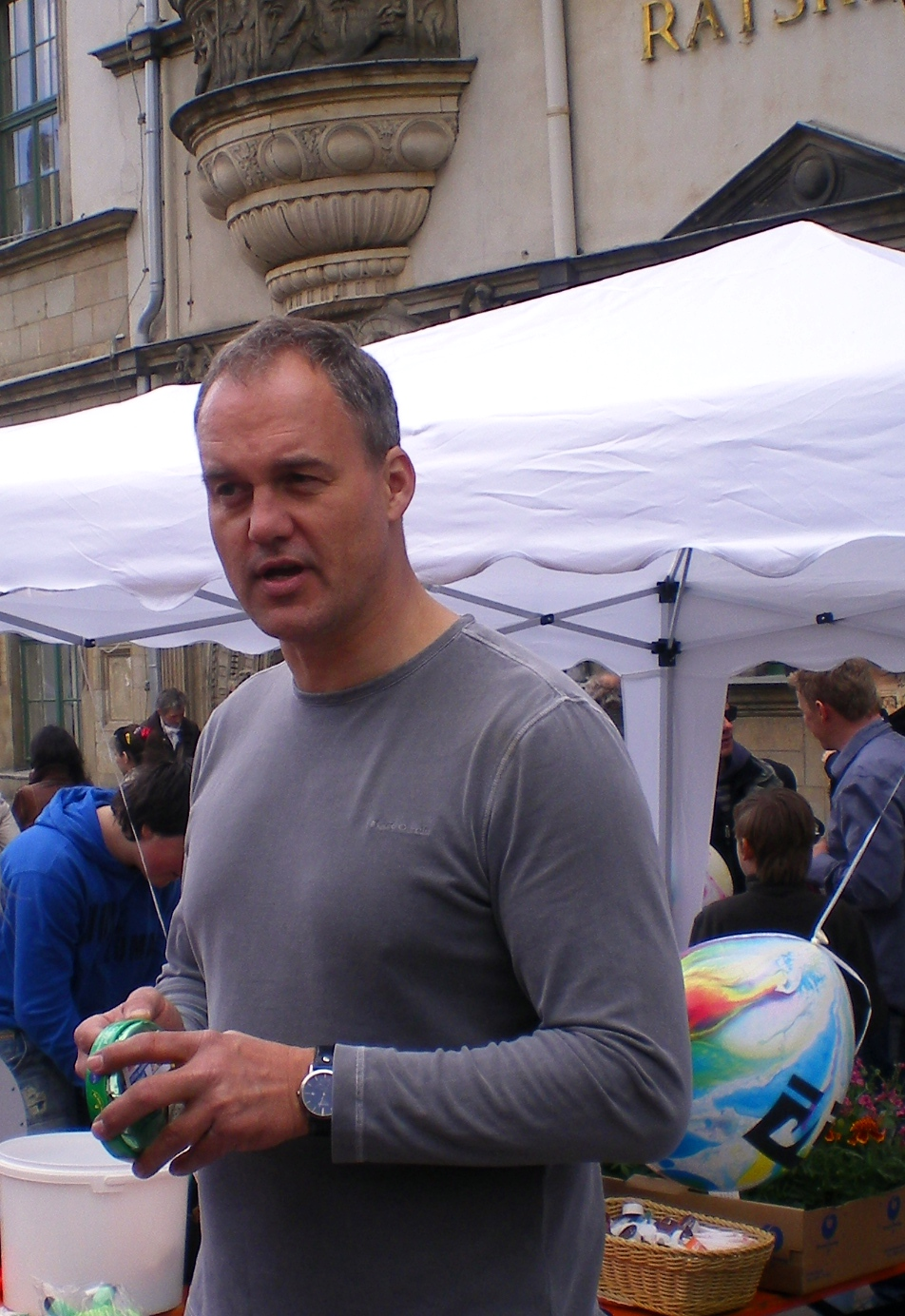 Michael Wolf, major of Altenburg (city in Thuringia/Germany)